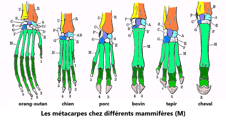 mammals metacarp (left to right): orangutan, dog, goat, pig, tapir, horse.